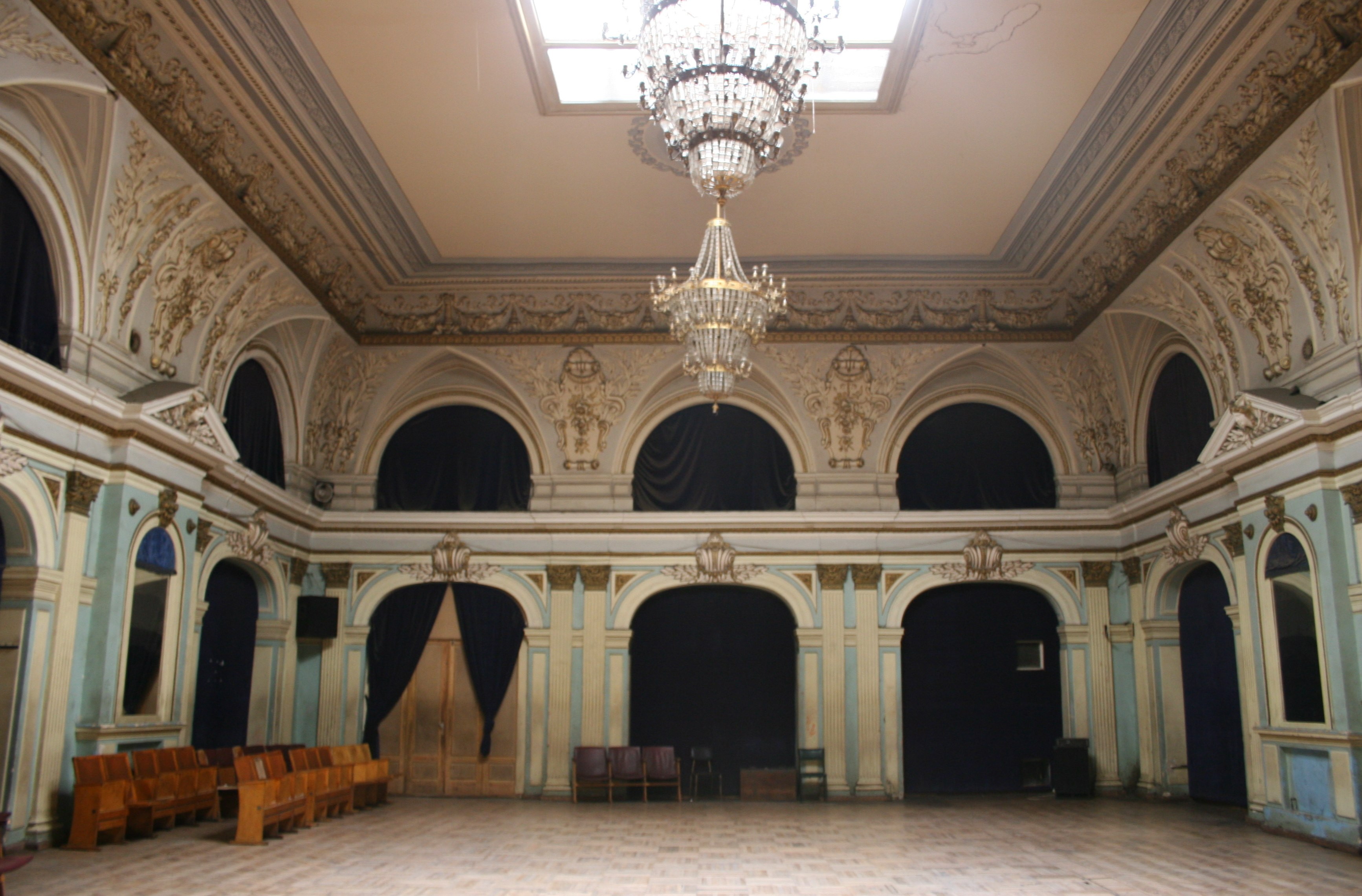 Officers House, Tbilisi. interior